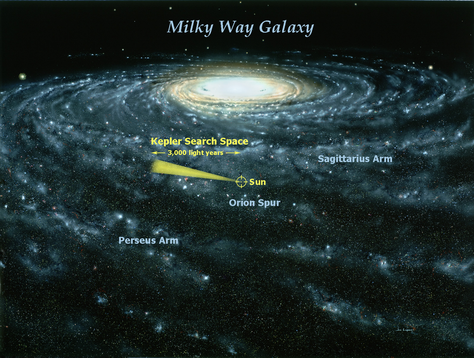 Painting of Milky Way galaxy used as background for diagram of Kepler Mission search space.Portrait of the Milky Way © Jon Lomberg